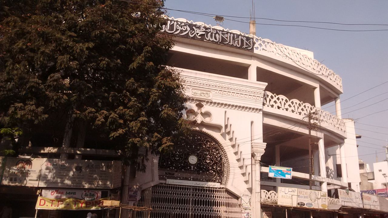 Jama Masjid Moazampura. (now Mallepally) Hyderabad, India